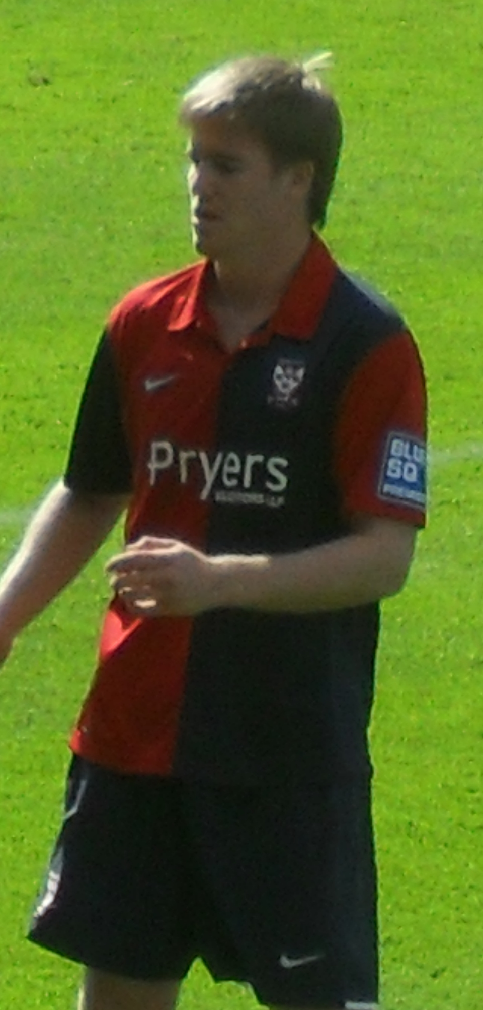 Michael Gash playing for York City against Forest Green Rovers at Bootham Crescent, York on 15 August 2009